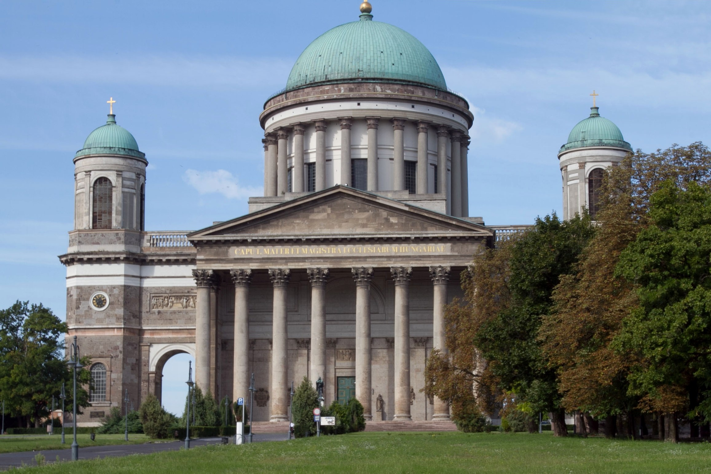 Esztergom Basilica